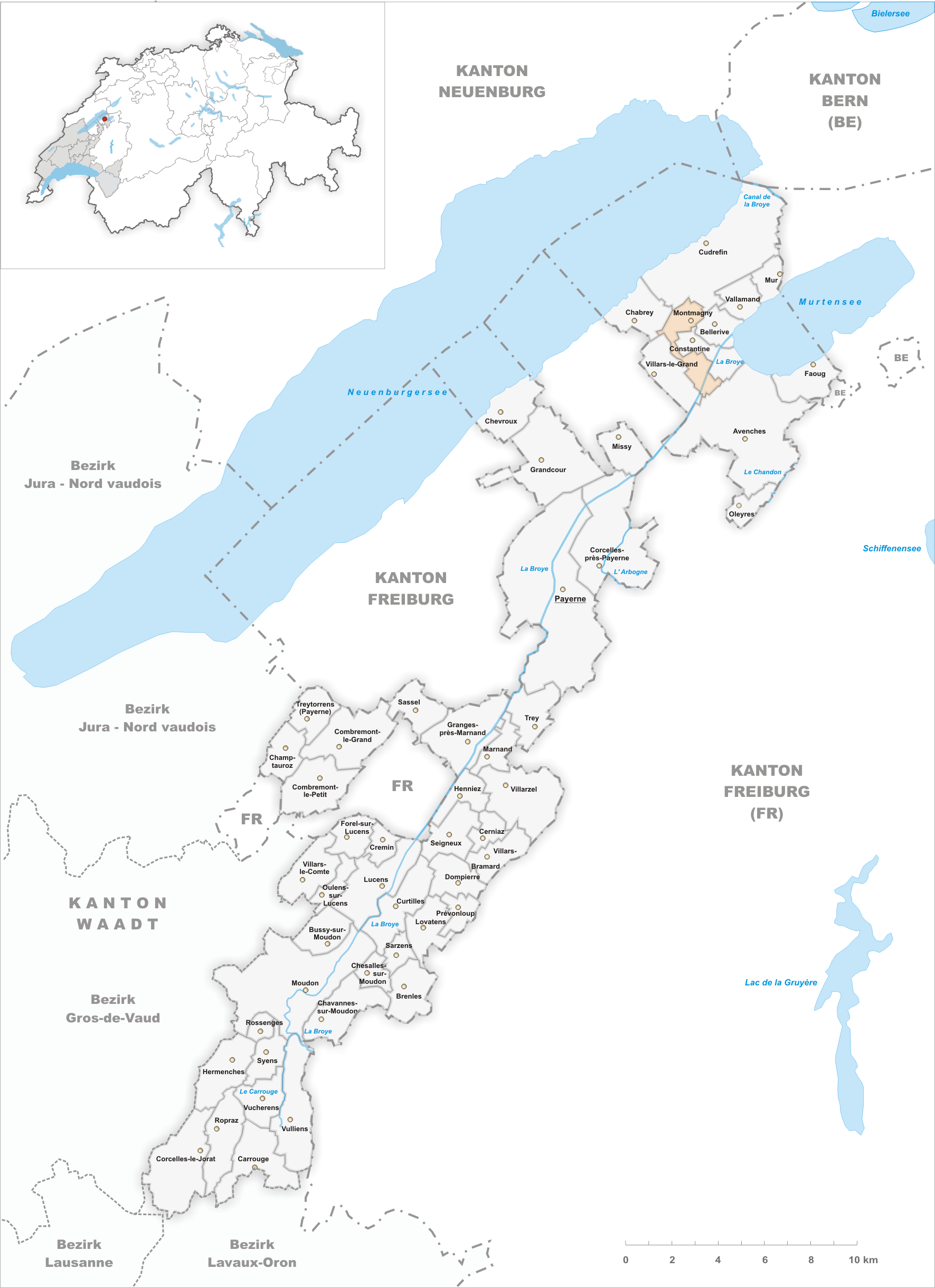 Municipality Montmagny